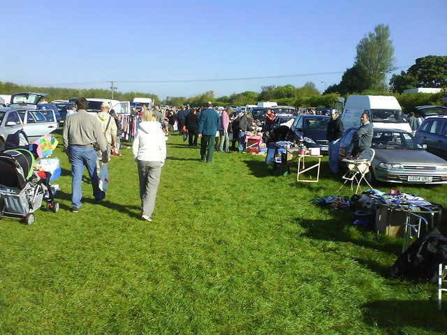 Burcot car boot sale